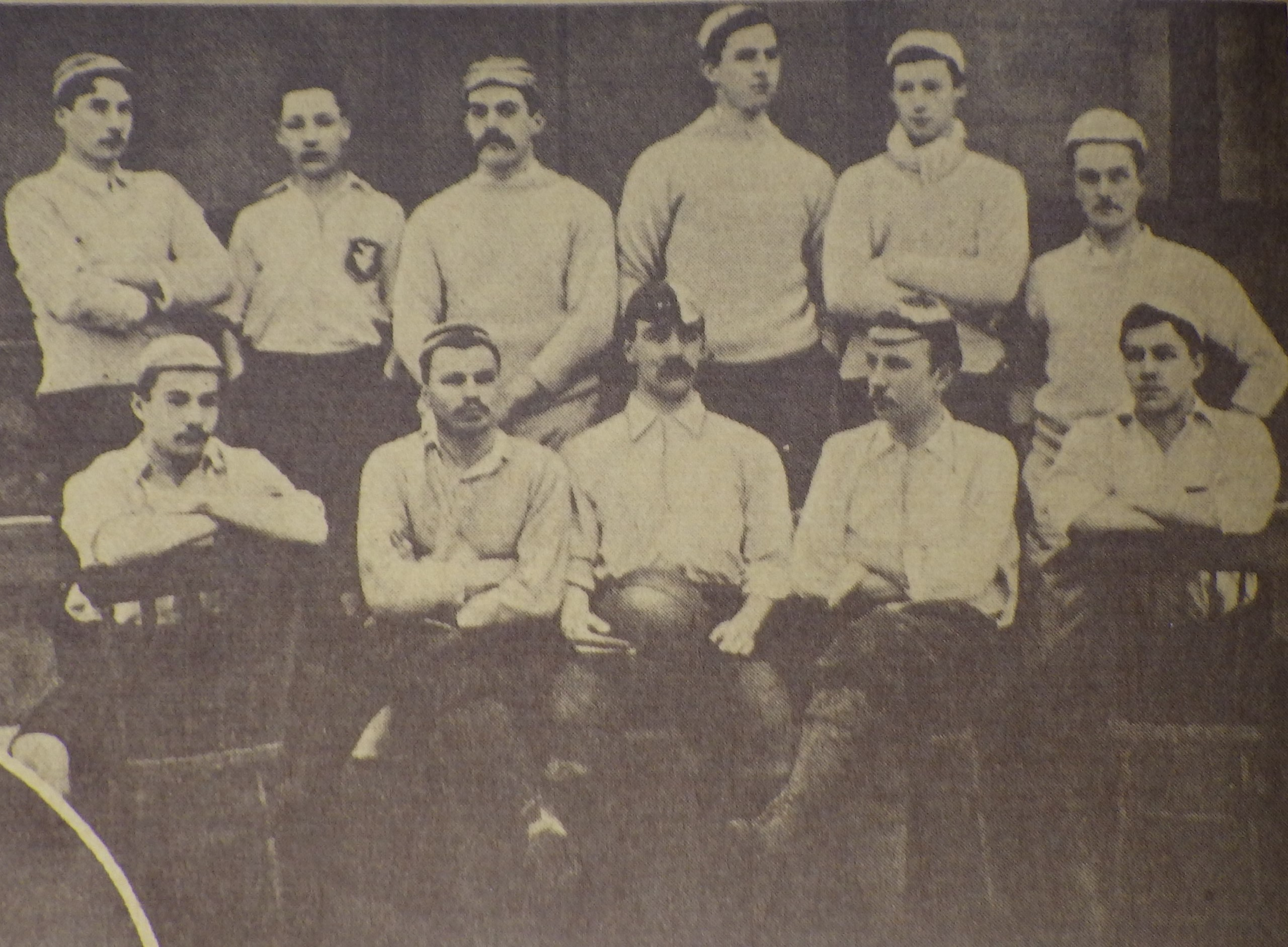 A photo of the Old Foresters Football Club team from 1885. Back row (left to right): Charles Collison, L.S. Dashwood, H.H. Johnson, Fred R. Pelly, H. Salwey, W.S. Borrow. Bottom row (left to right): H. Guy, R.B. Johnson, R.W. Burrows, A. Robertson, H.C. Newbery.